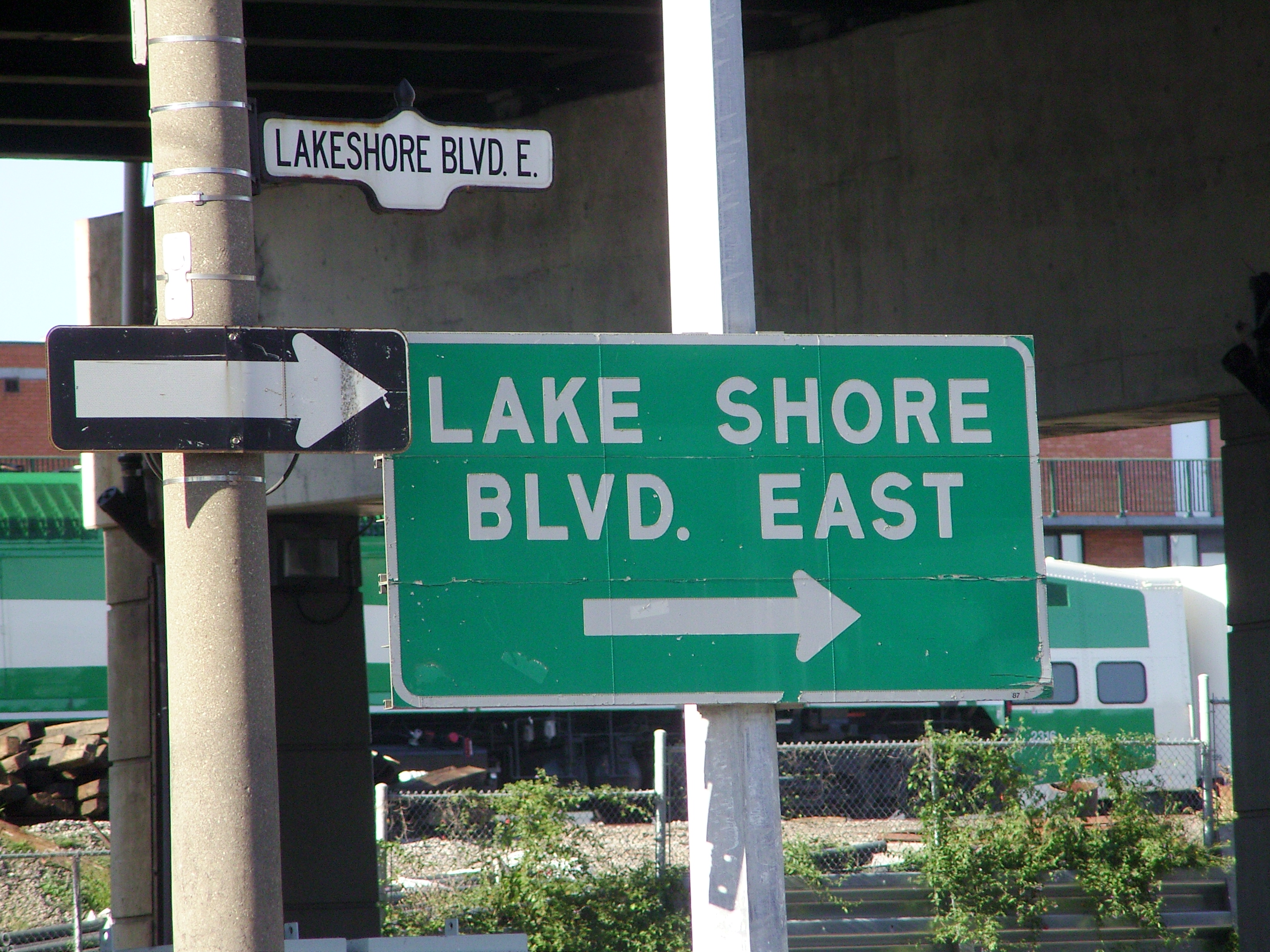 Designation signs of Lake Shore Boulevard showing common misspelling.